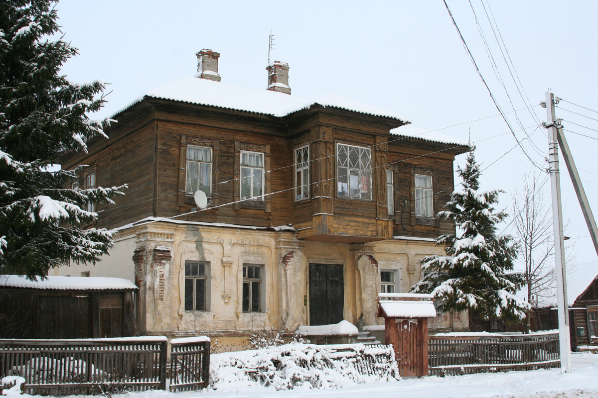 House for Dedinovskiy Hospital workers, Dedinovo, Lukhovitskiy district